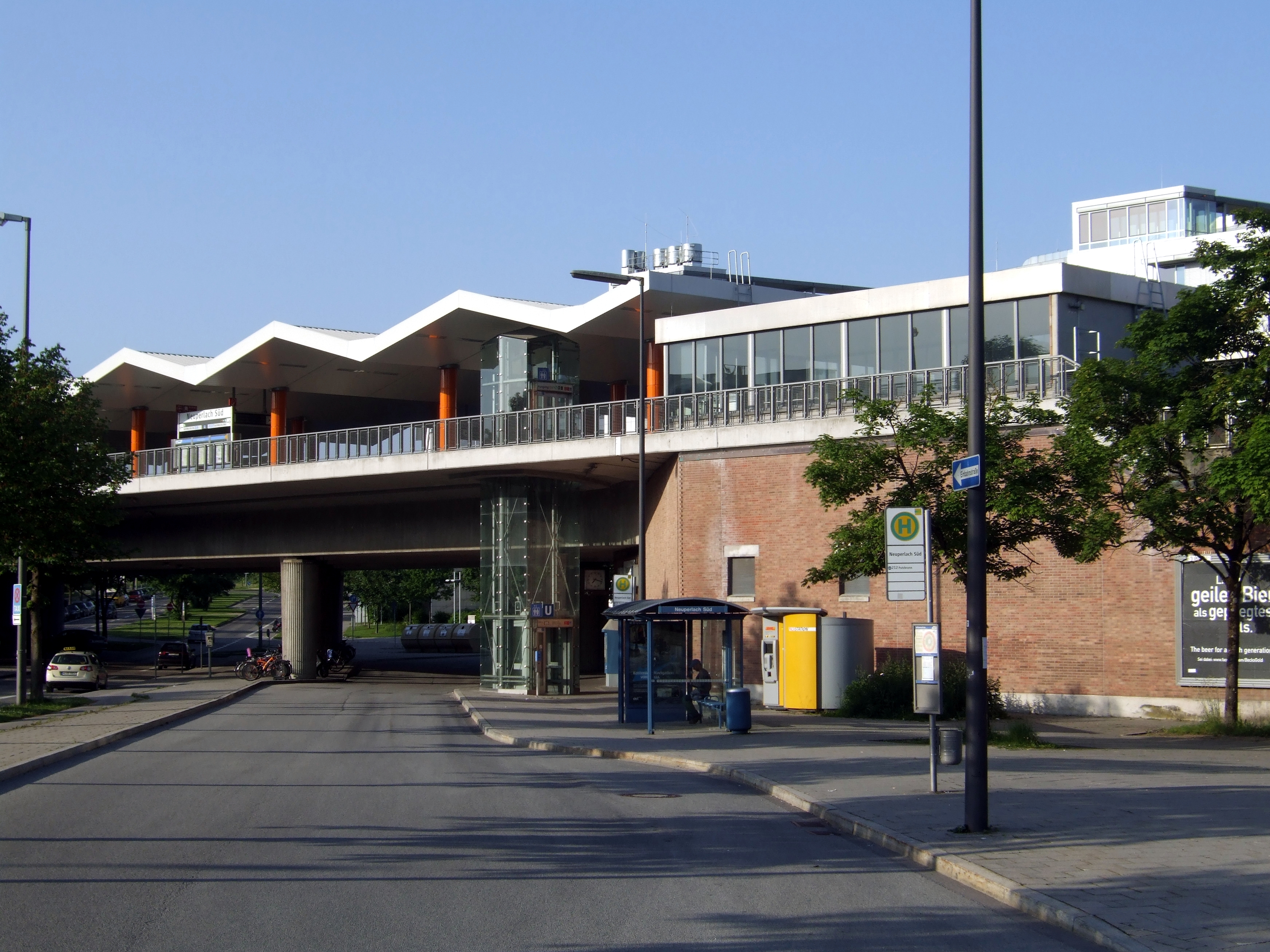 Munich: Neuperlach Süd U-Bahn and S-Bahn stop (outside view)